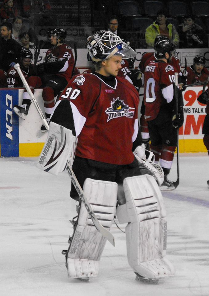 Taken 11/30/2013 @ Copps Coliseum, Hamilton, ON